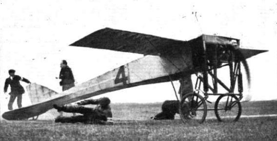 Gustave Hamel's Bleriot XXIII at the start of the 1911 Gordon Bennet competition